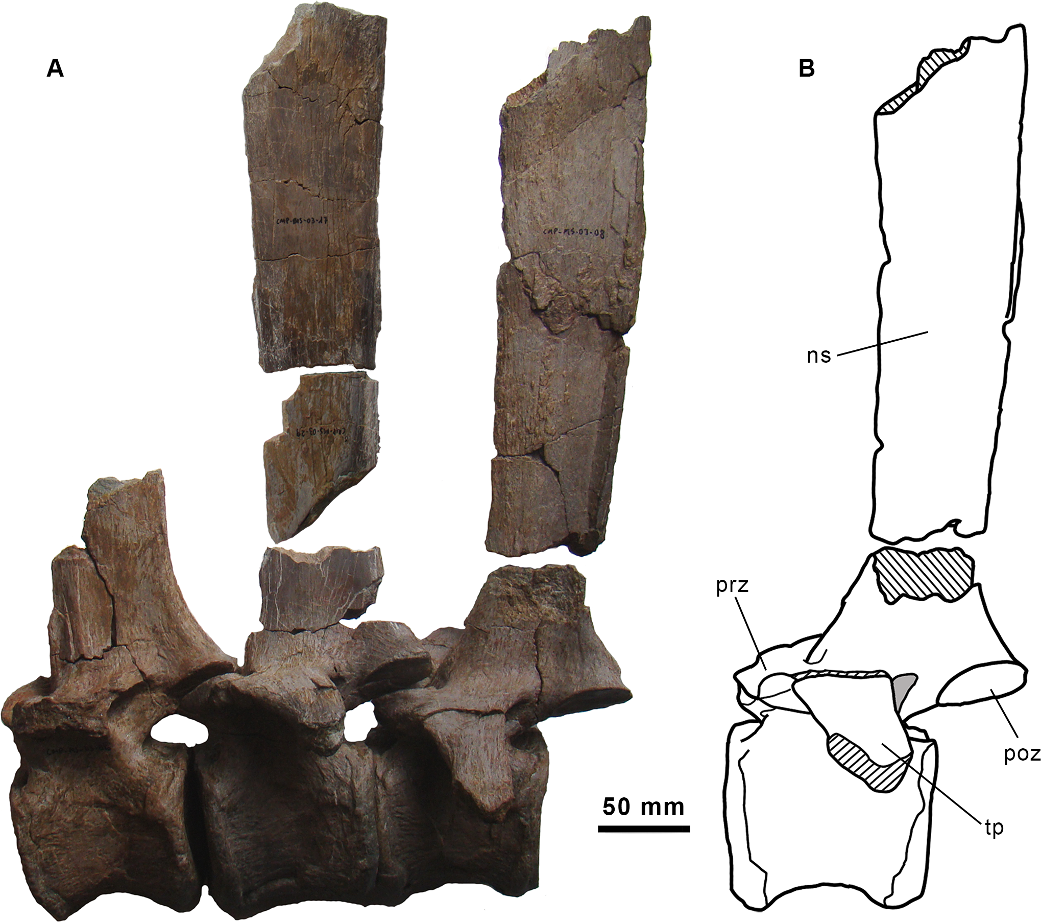 Dorsal vertebrae series of the holotype specimen of Morelladon beltrani (CMP-MS-03). CMP-MS-03-06, -07 (including CMP-MS-03-17 and -29) and -05 (including CMP-MS-03-08) in left lateral (A) view. Interpretive drawing of CMP-MS-03-05 (including CMP-MS-03-08 neural spine) in left lateral (B) view. Abbreviations: ns, neural spine; poz, postzygapophysis; pre, prezygapophysis; rec, vertical recess; tp, transverse process.